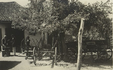 Cart-wright's trade in Bulgaria